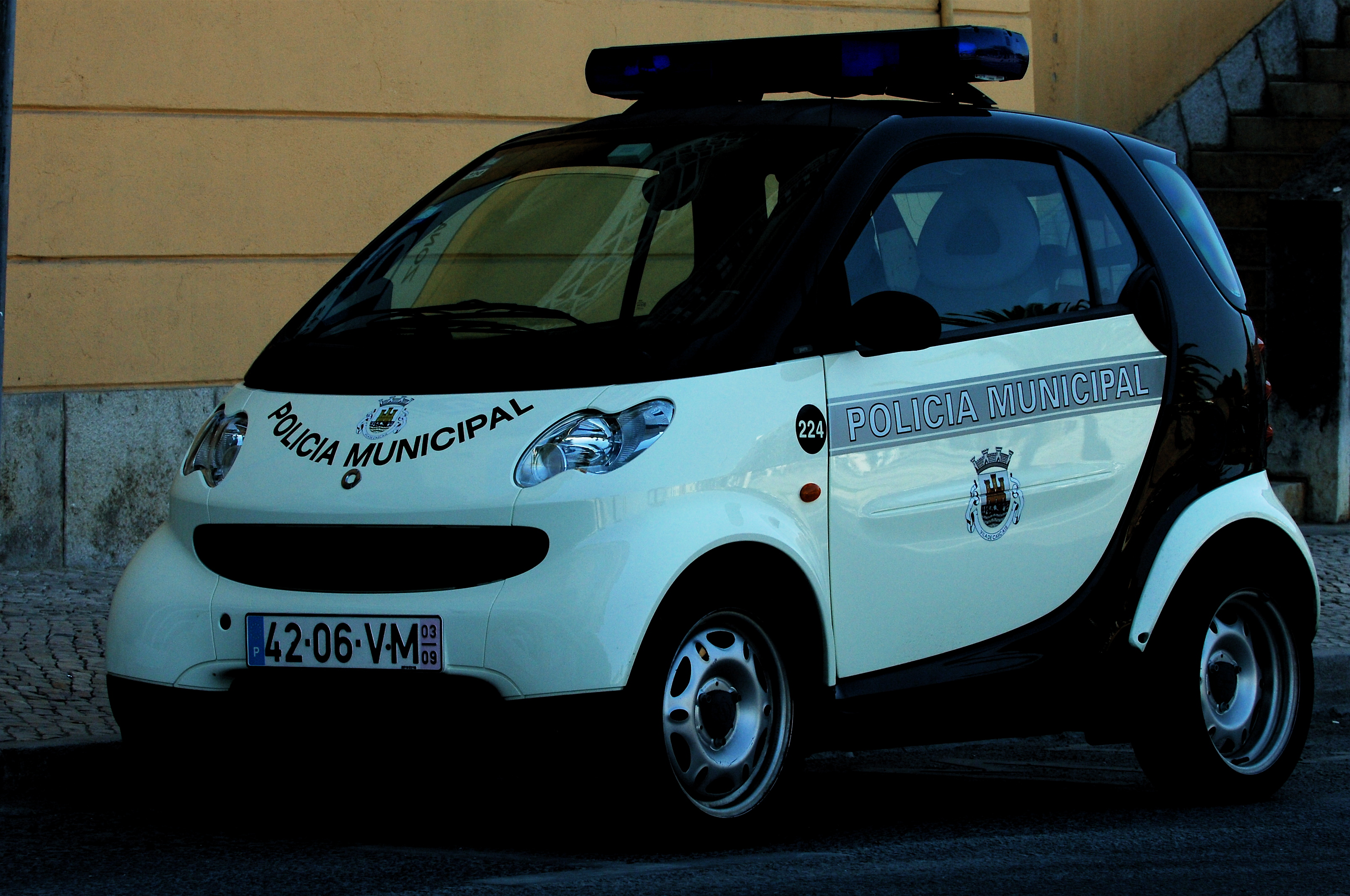 Smart Fortwo of the Municipal Police of Cascais, Portugal.